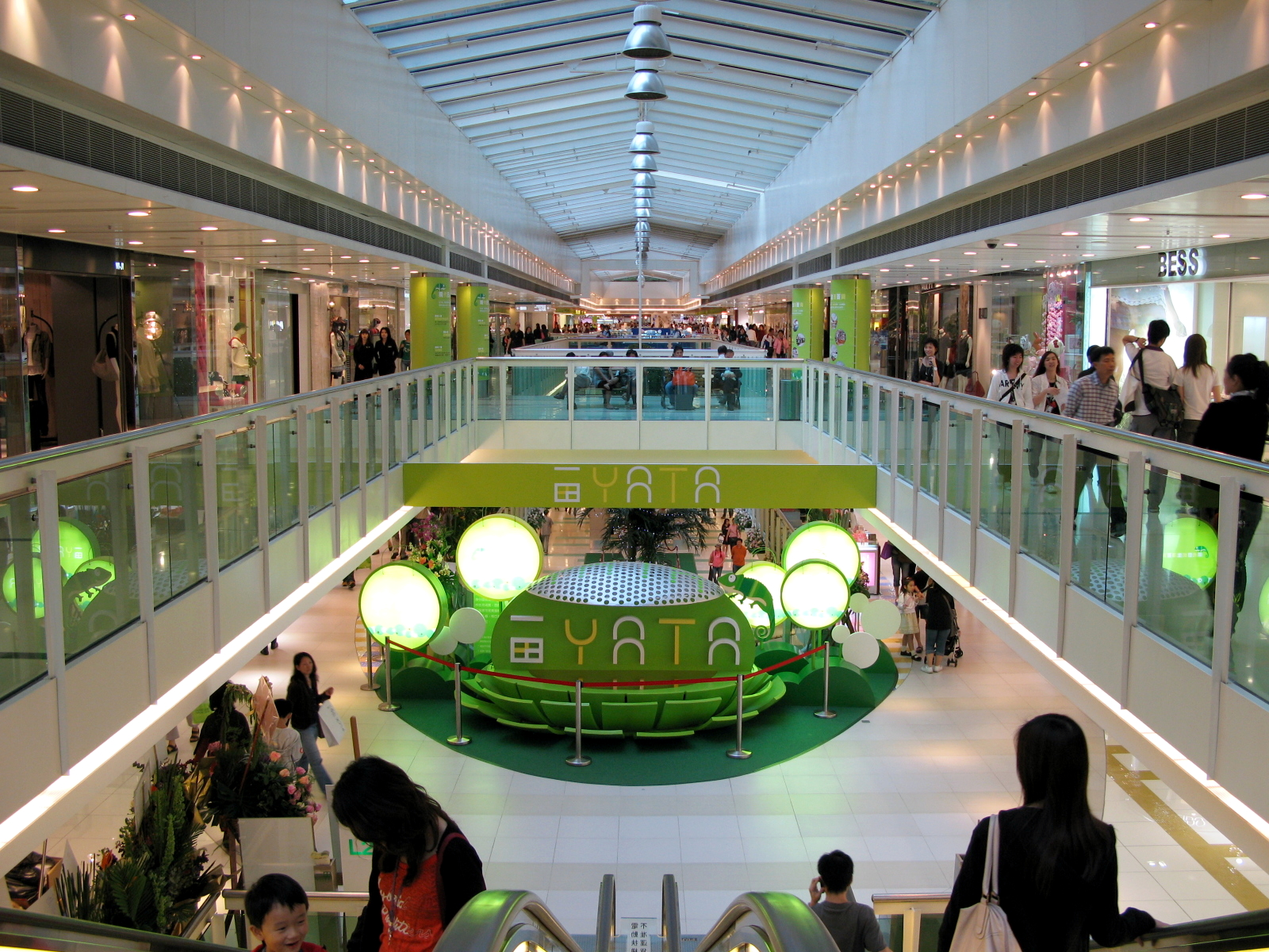 HK Yata Department Store Enterance